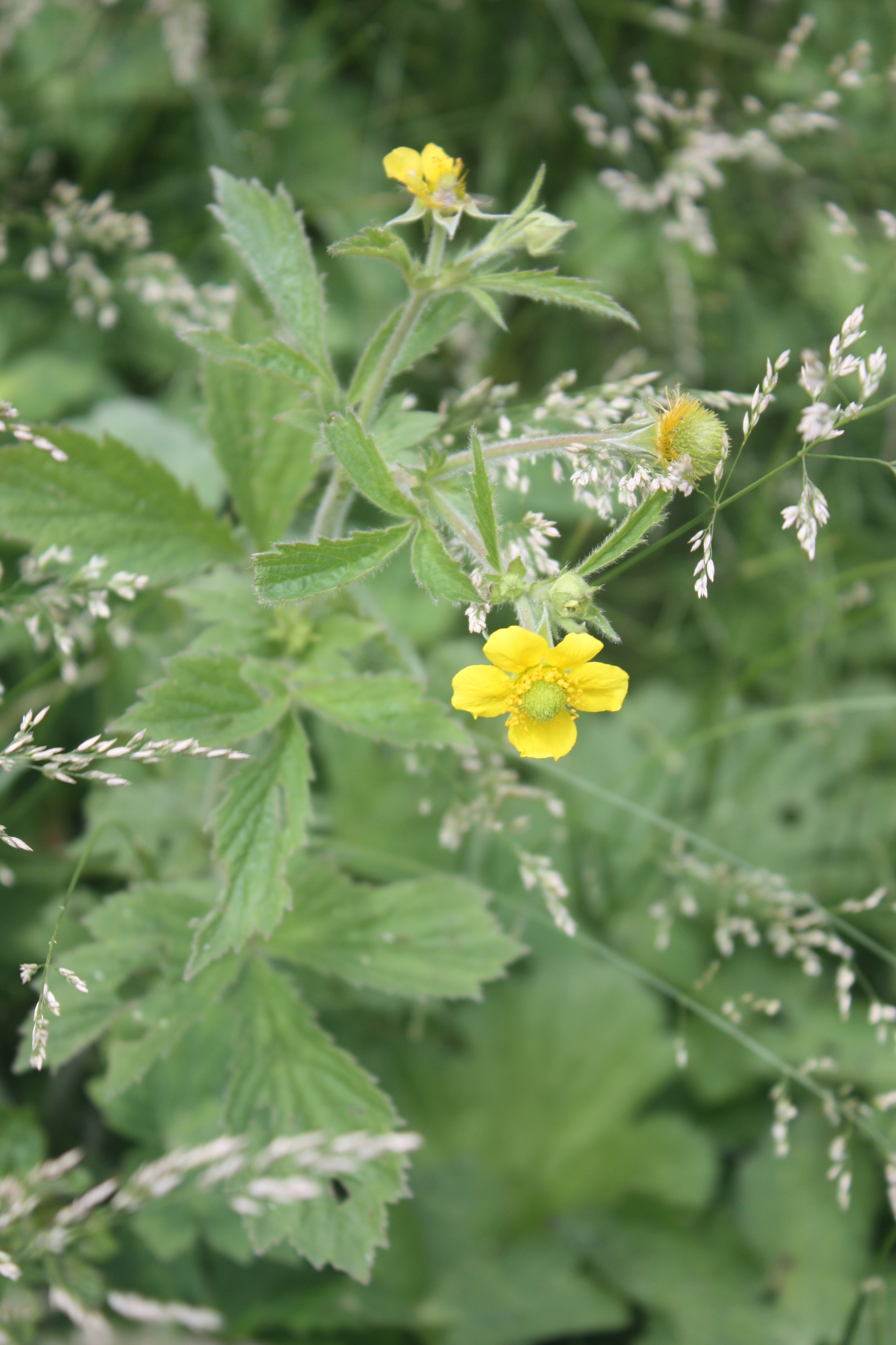 Geum aleppicum, Nogodan, Jirisan, South Korea